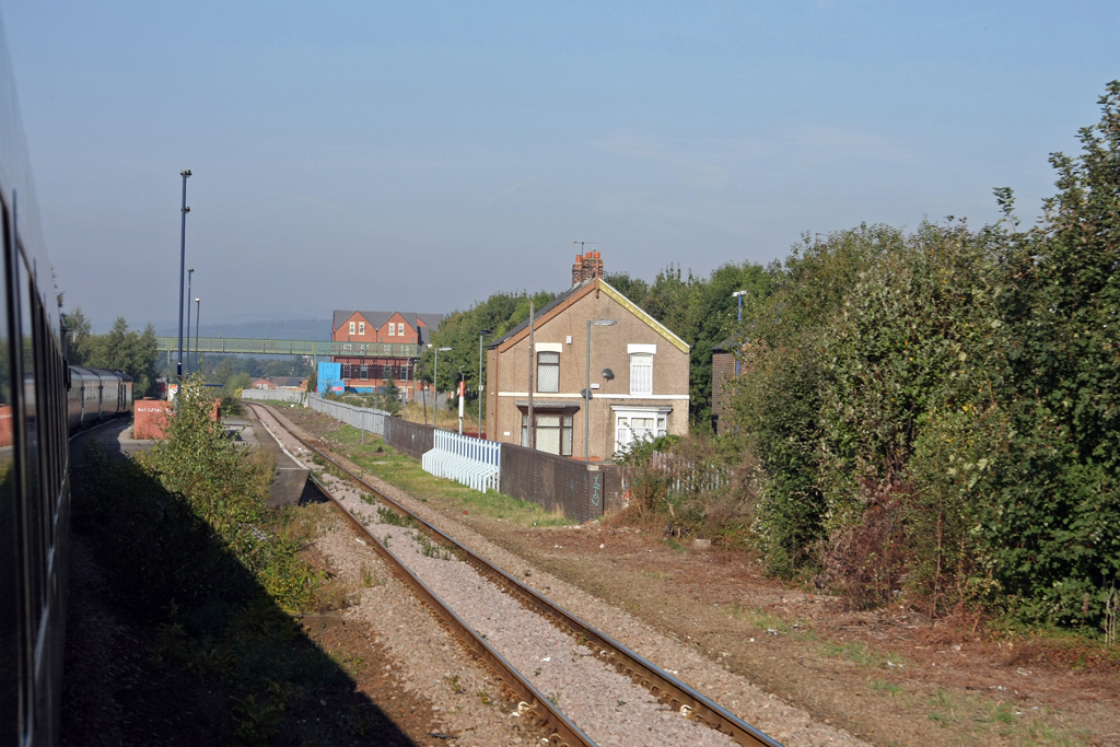 Darnall railway station was built to serve Darnall, a community about from the centre of Sheffield, South Yorkshire, England and which later became suburb of the city.